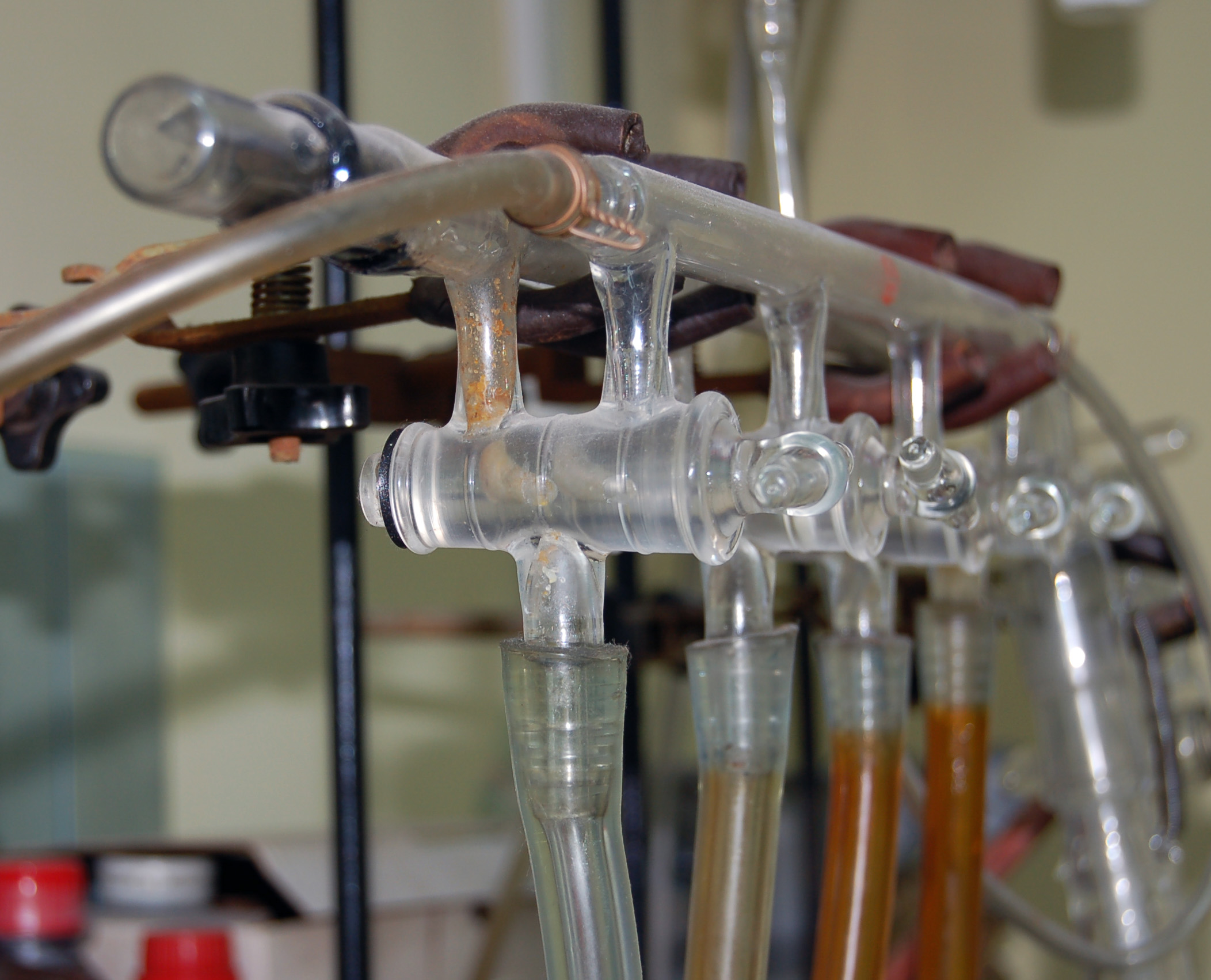 Side view of double vacuum line - picture taken in CBMiM PAN